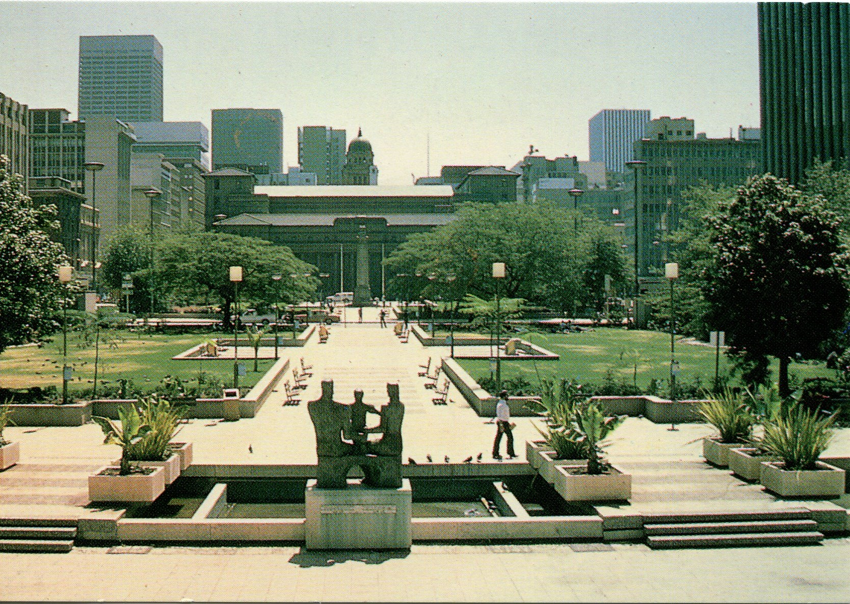 The Beyers Naude Square in the city of Johannesburg named after Beyers Naude who was an Afrikaner fighting against apartheid in South Africa